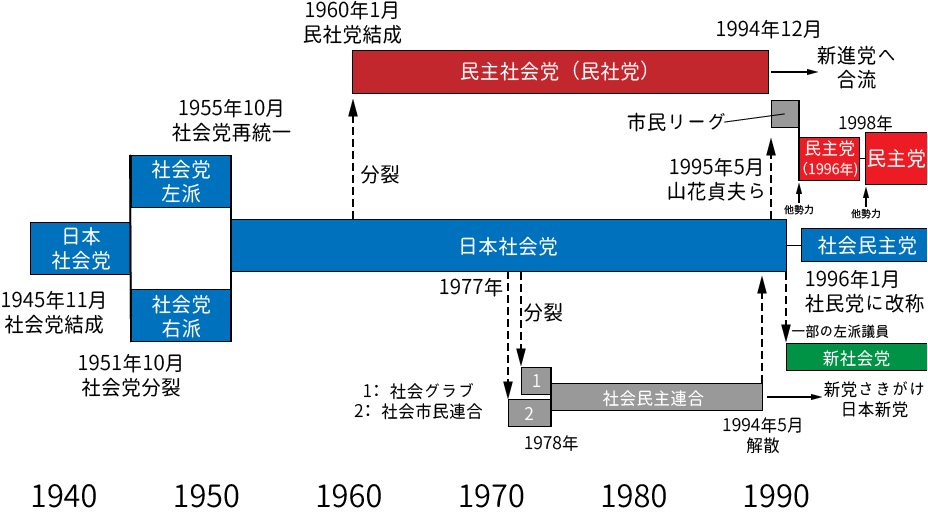 The history of Japan Socialist Party (Japanese version)